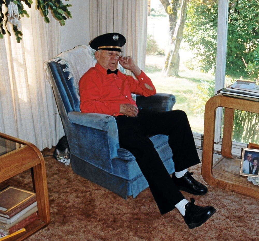 Parade dress for fire men in Nevada City. Benjamin Barry was born in 1925. Native American - Miwok.